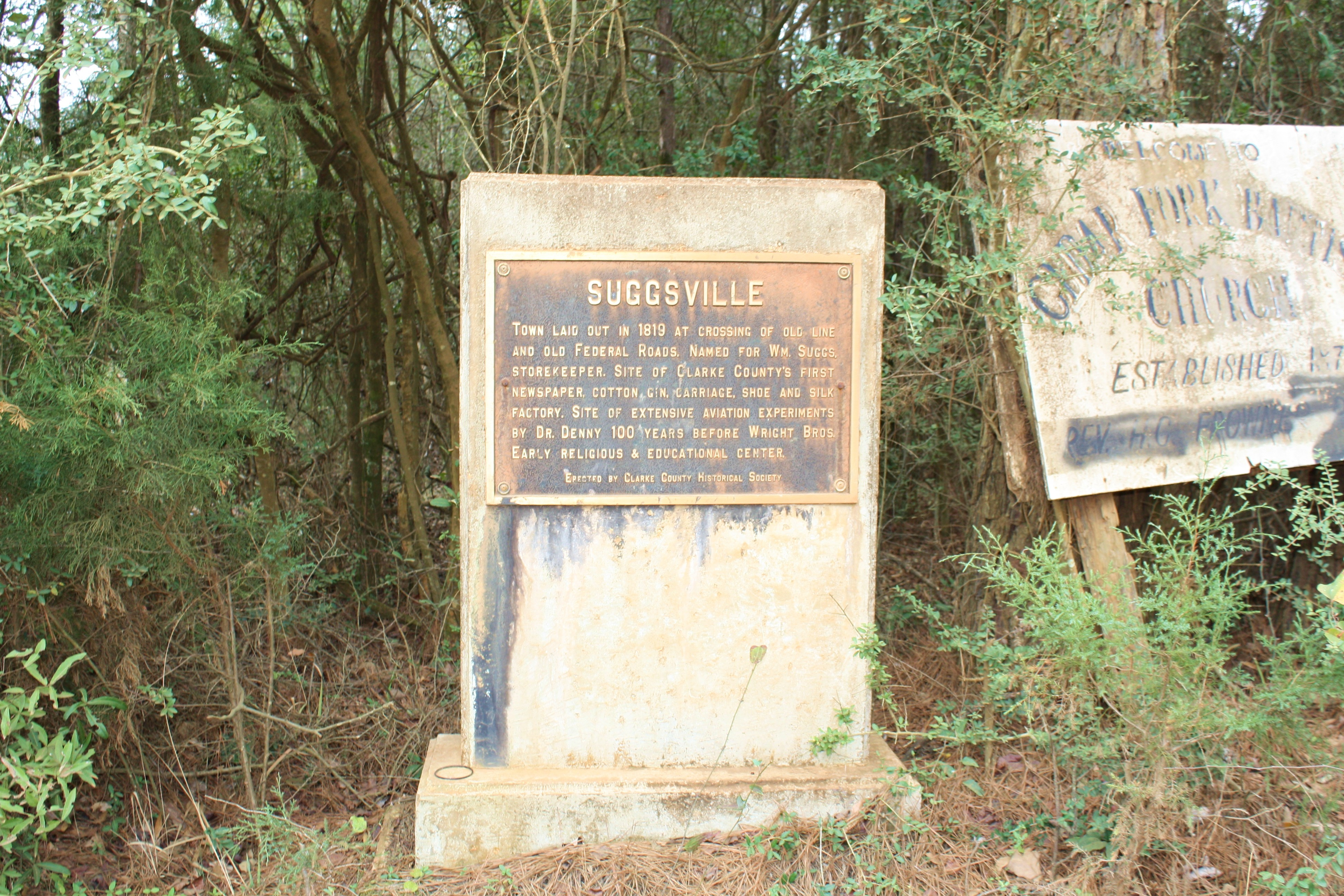 Historic marker at Suggsville, Clarke County, Alabama.